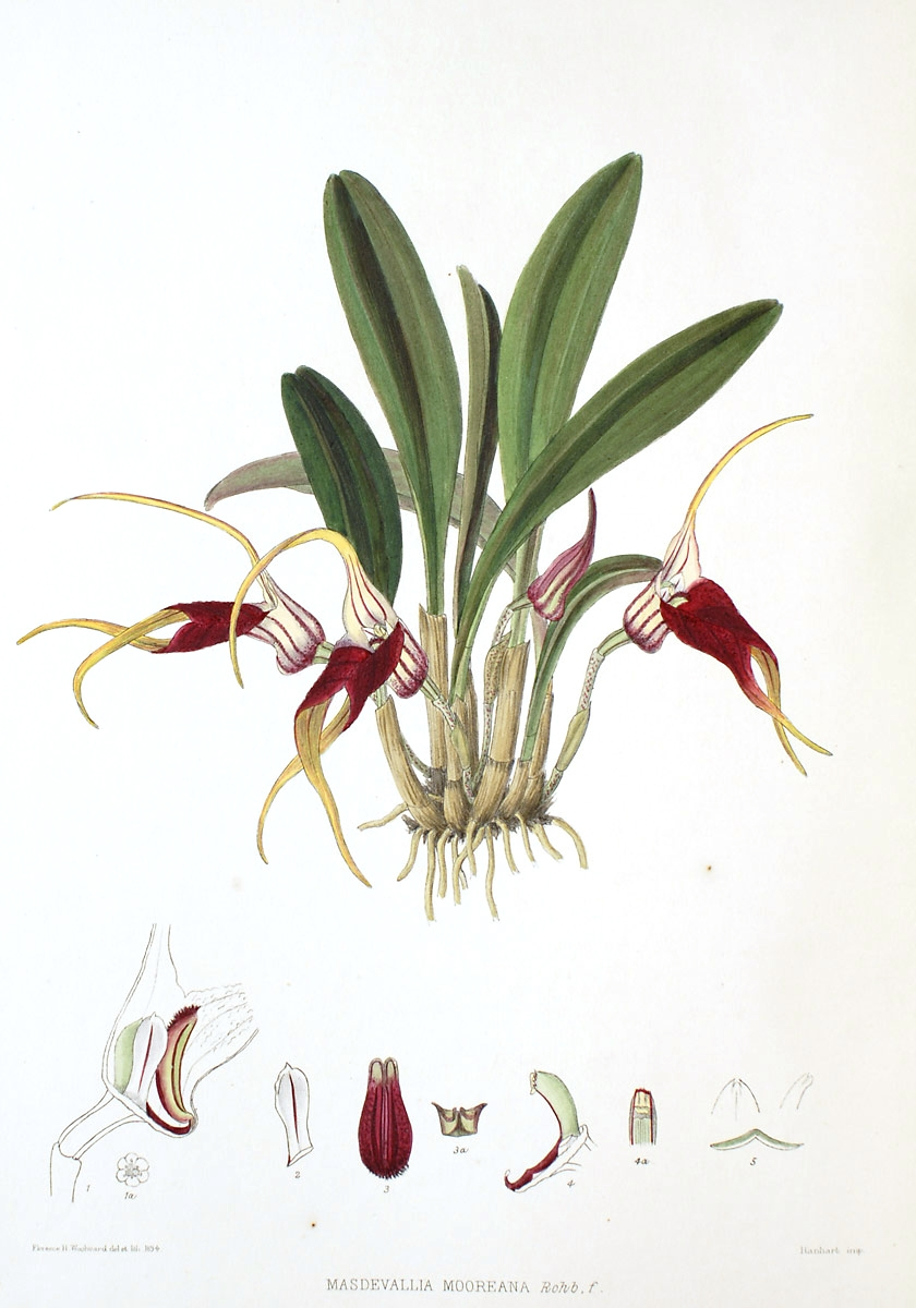 Illustration of Masdevallia mooreana from Florence H. Woolward: The Genus Masdevallia